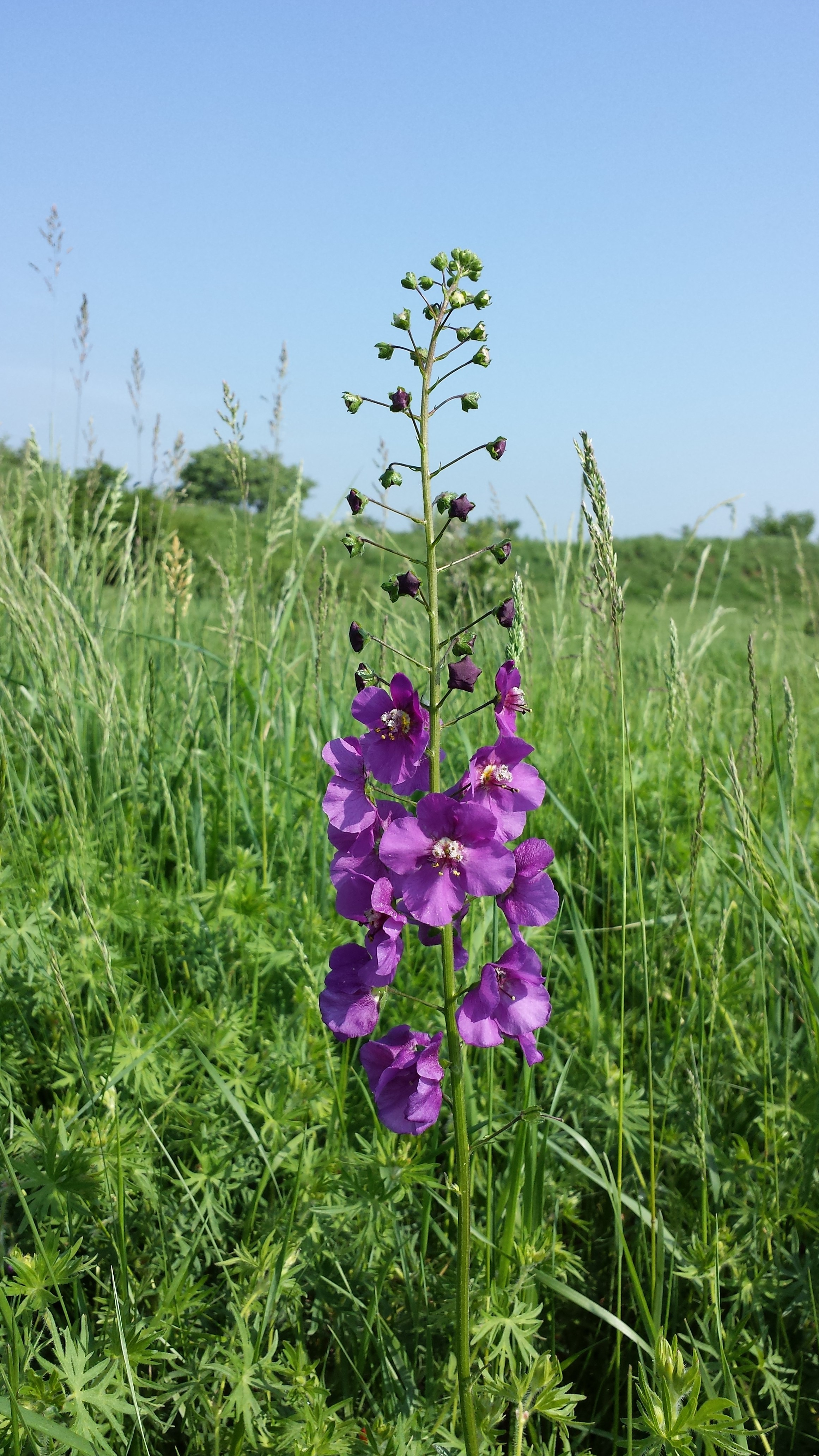 Taxon: Verbascum phoeniceum Location: Alte Schanzen (object XI), Vienna-Floridsdorf Habitat: dry grassland Identified according to: Fischer et. al. ExFlora Austria etc. 2008